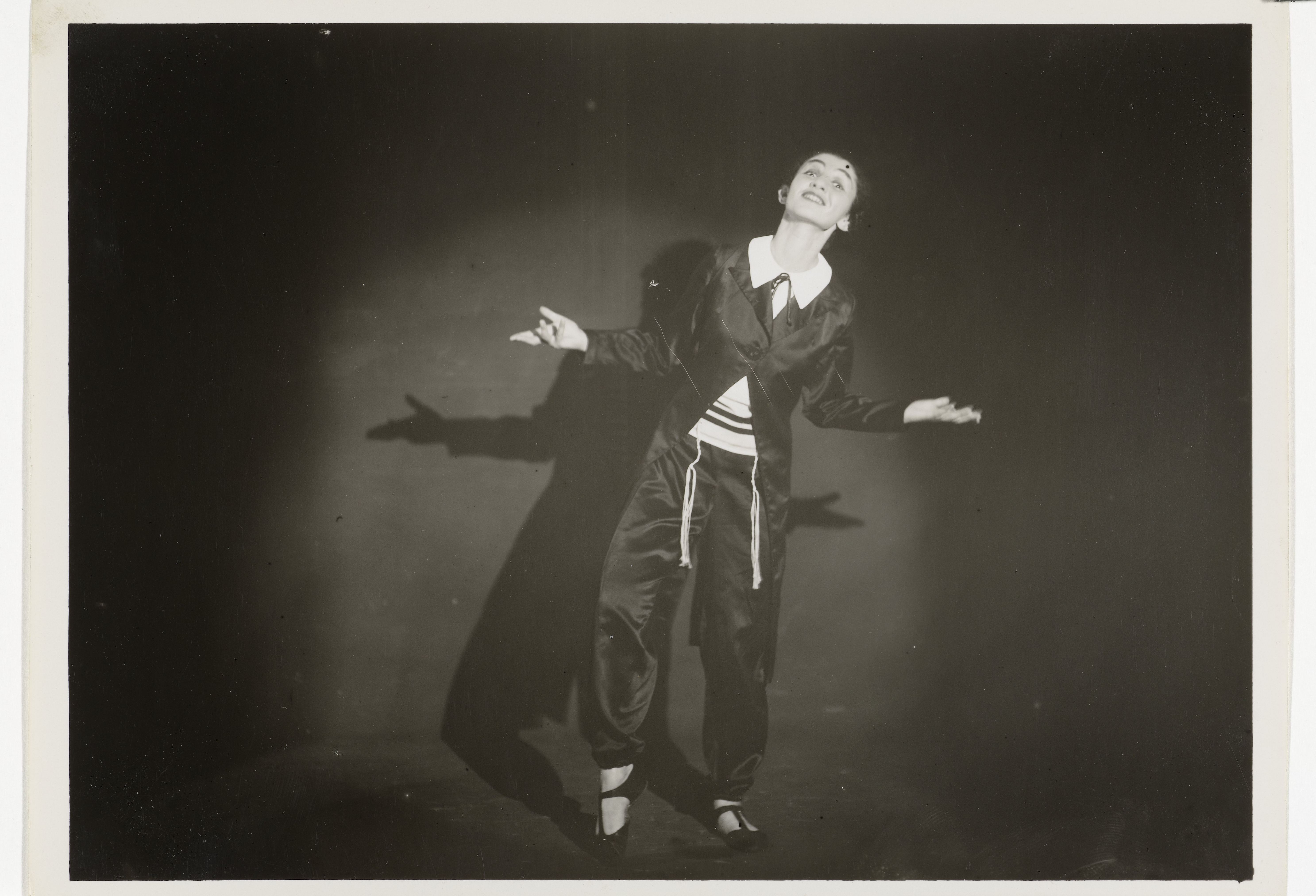 Dutch actor and dancer Chaja Goldstein. Photograph by Jacob Merkelbach